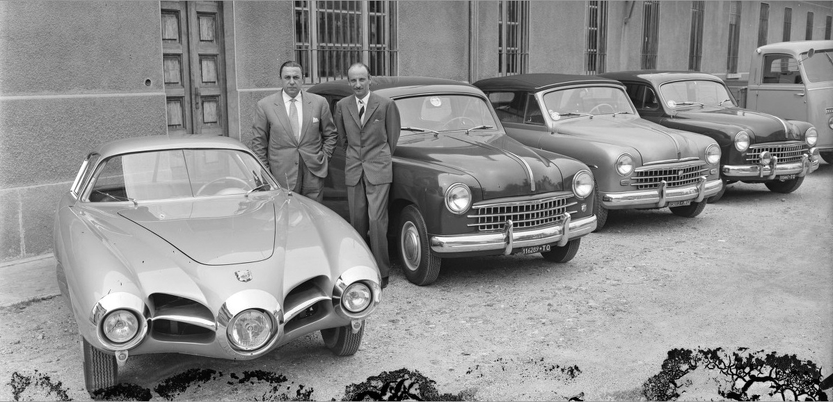 The 1952 Abarth 1500 biposto by Bertone. Carlo Abarth standing (left) outside the Bertone plant in Torino. The other man is Carlo Scagliarini, one of Abarth's partners, and brother of Guido Scagliarini.[1][2] The other cars look like Fiat 1400s.